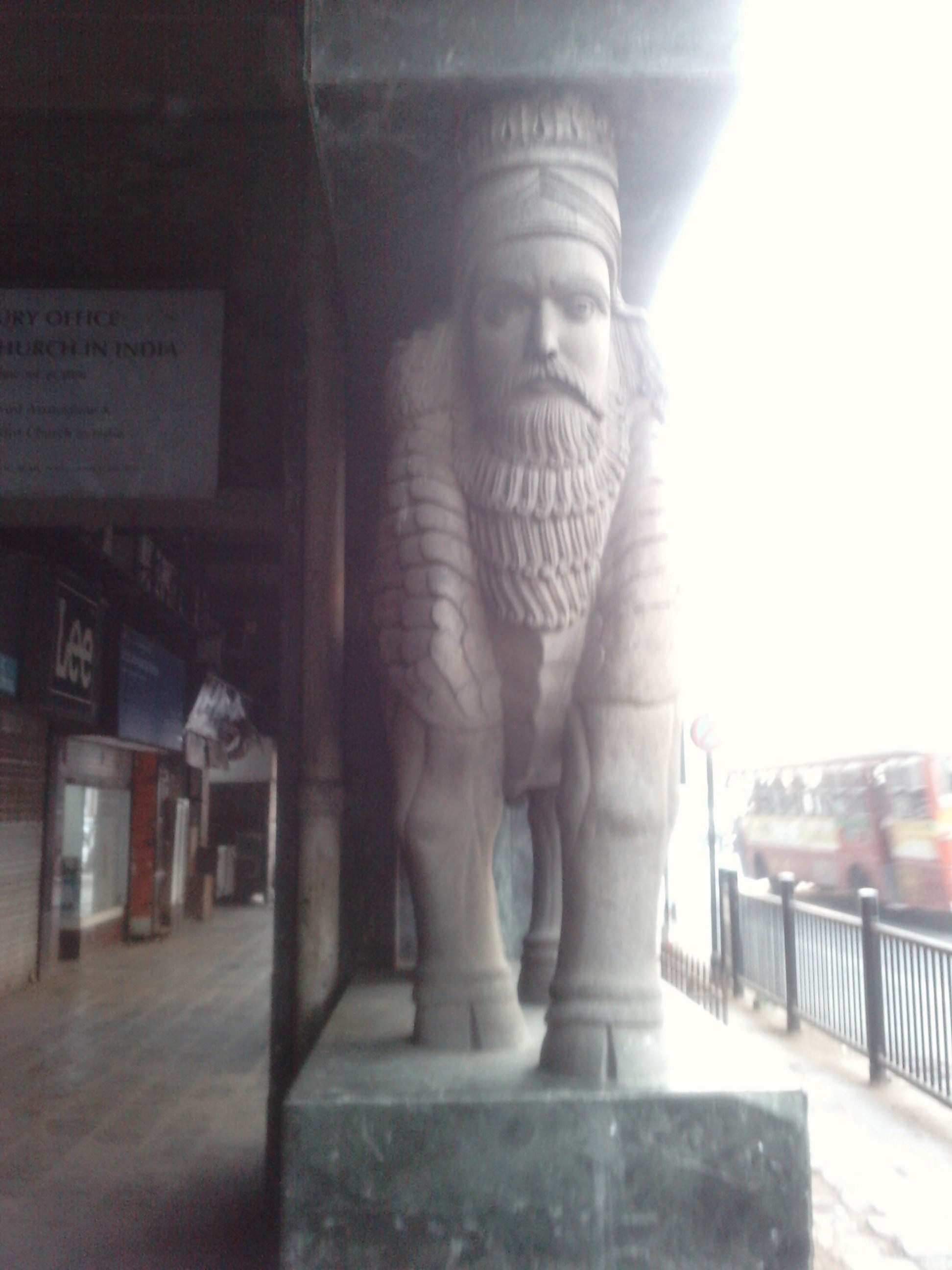 TAKEN DURING WIKIPEDIA TAKES MUMBAI 1 PHOTOWALK